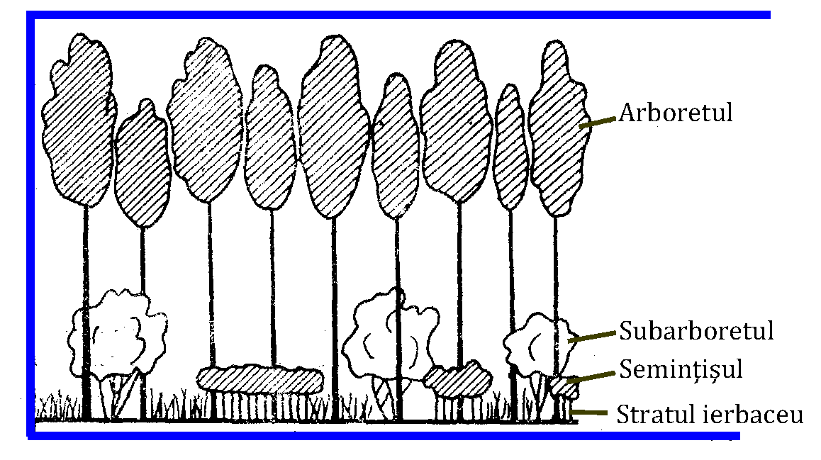 Understory